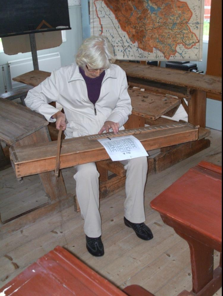 Psalmodicon played by the Curator of the Djurmo School Museum.